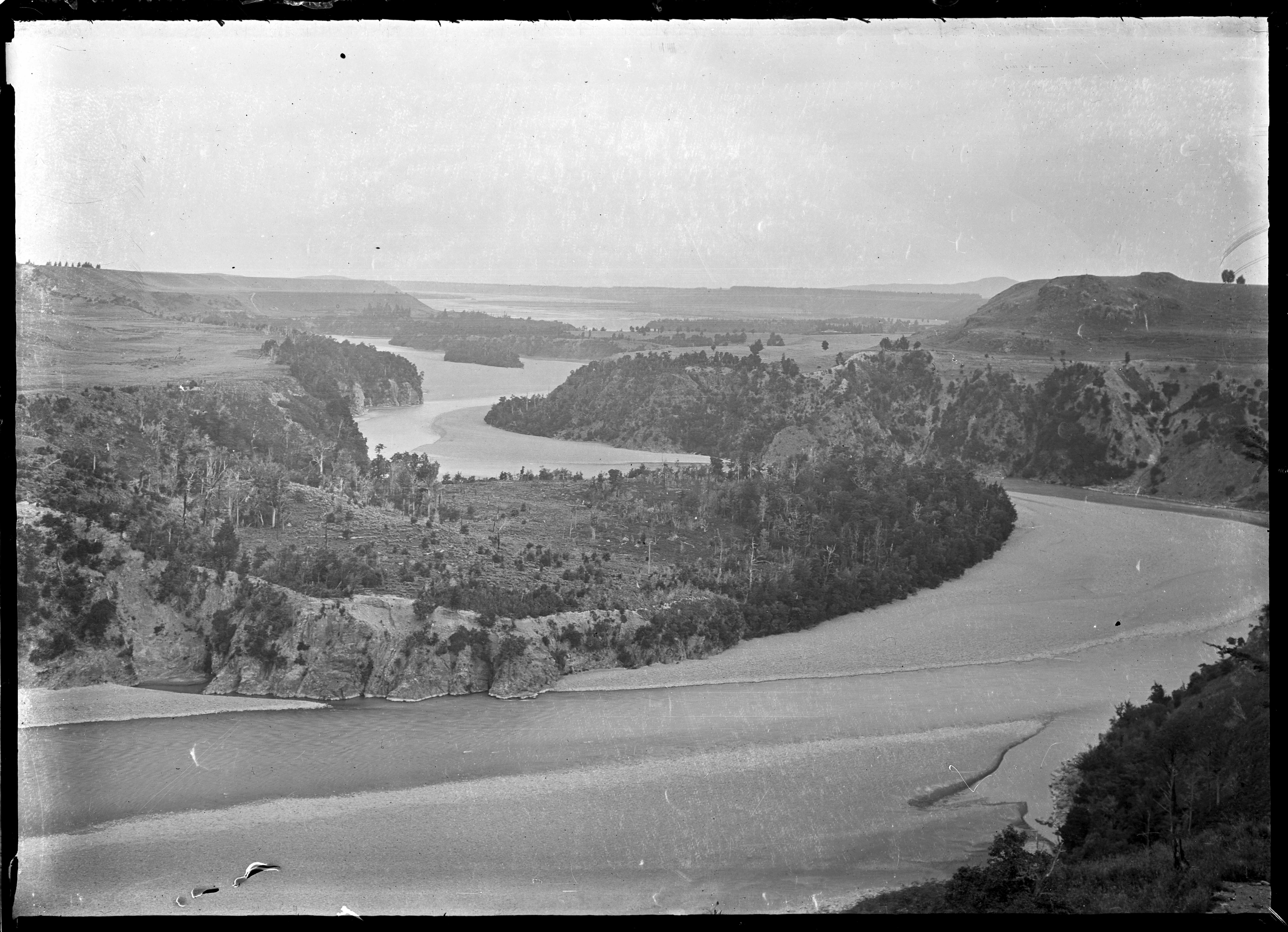 View looking down on the Waimakariri River from Kowai Bush, near Springfield. Photograph taken by Albert Percy Godber in 1926.